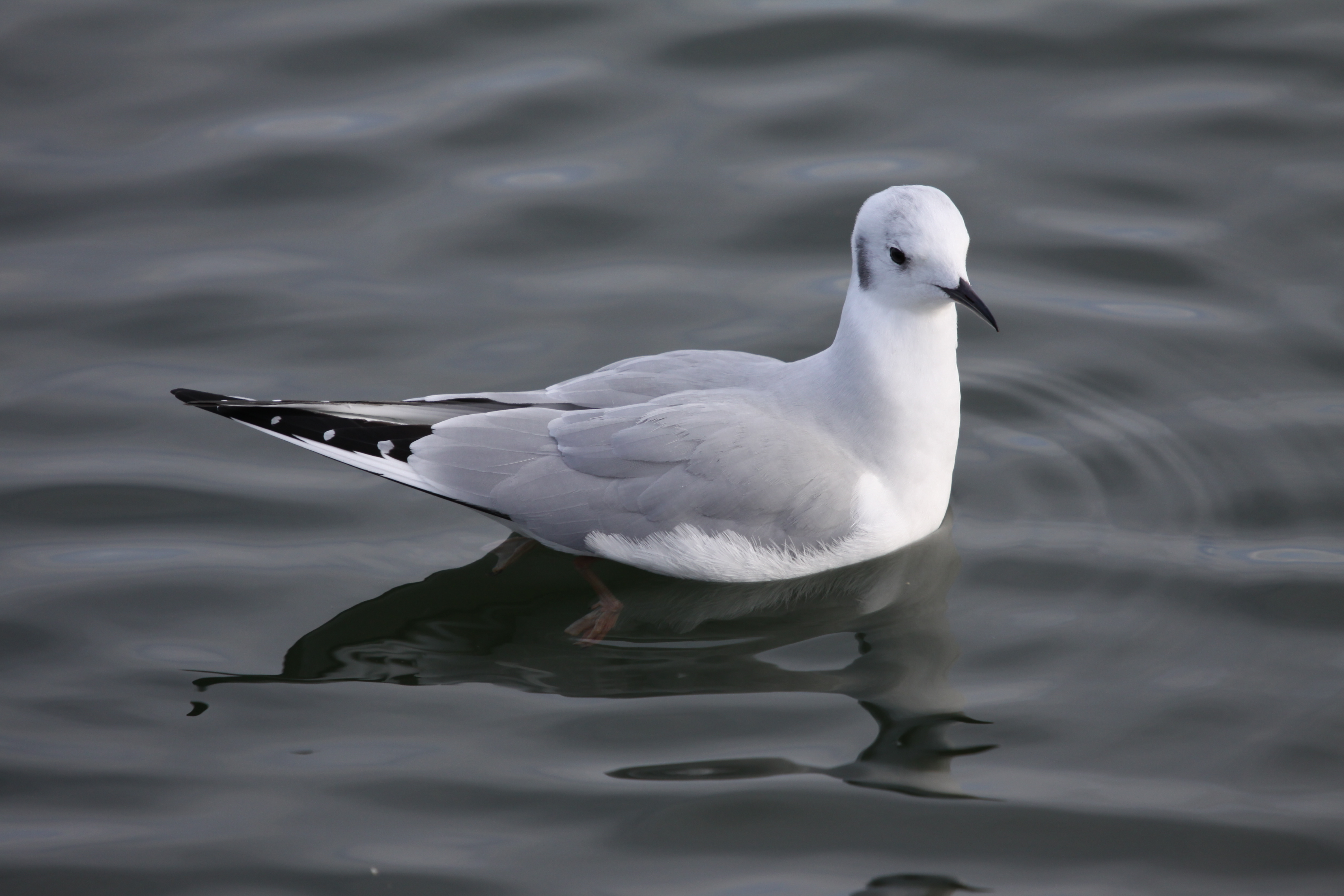 Chroicocephalus philadelphia (Bonaparte's Gull) adult non-breeding plumage. Bolsa Chica Ecological Reserve, California